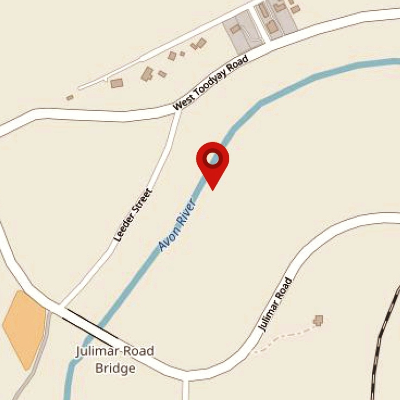 Created using OpenStreetMap to mark the site where the Military Barracks (1842 - 1859) were located in West Toodyay, Western Australia.